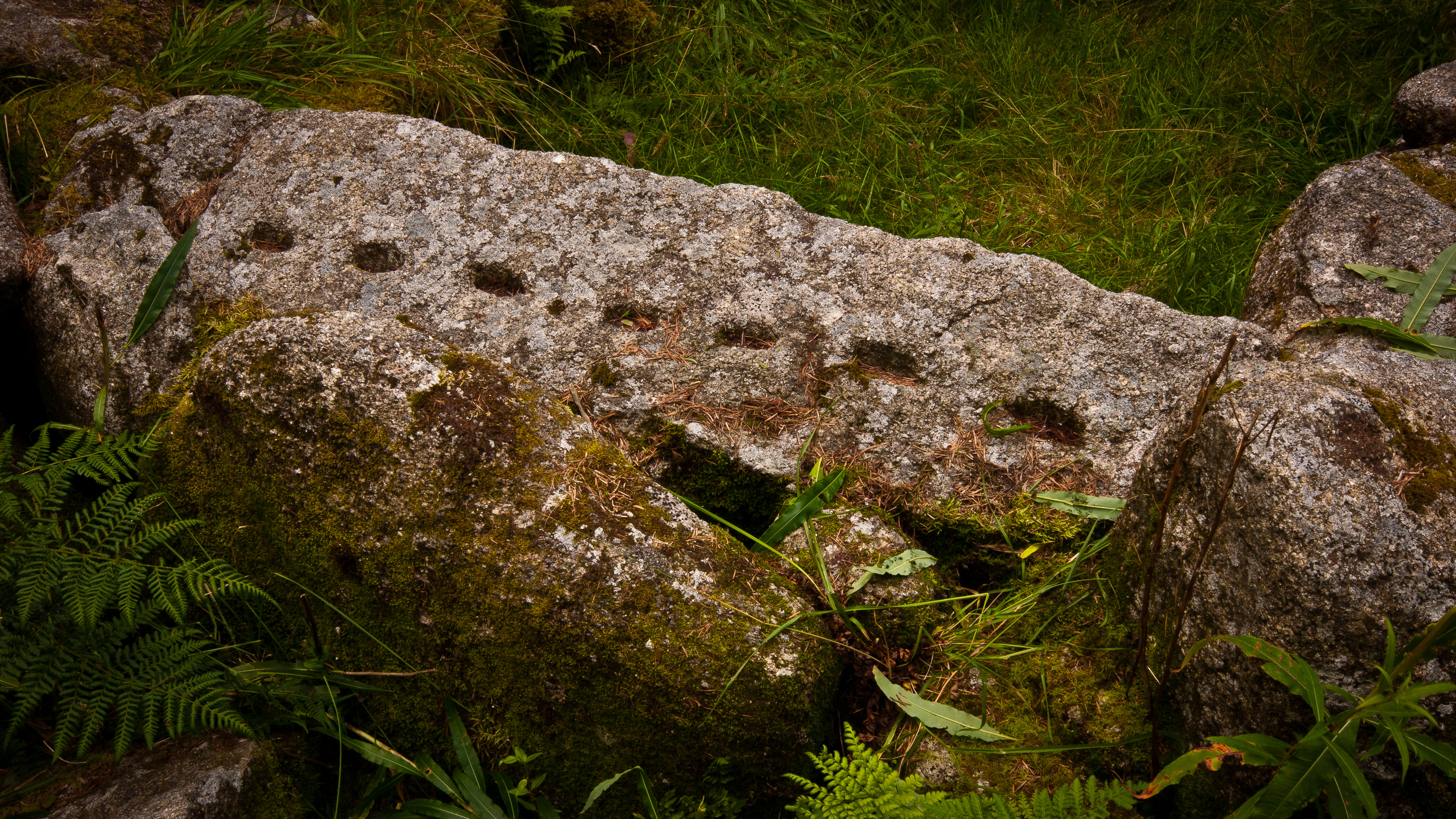 Rock art found on one of the stones at the prehistoric wedge tomb at Ballyedmonduff